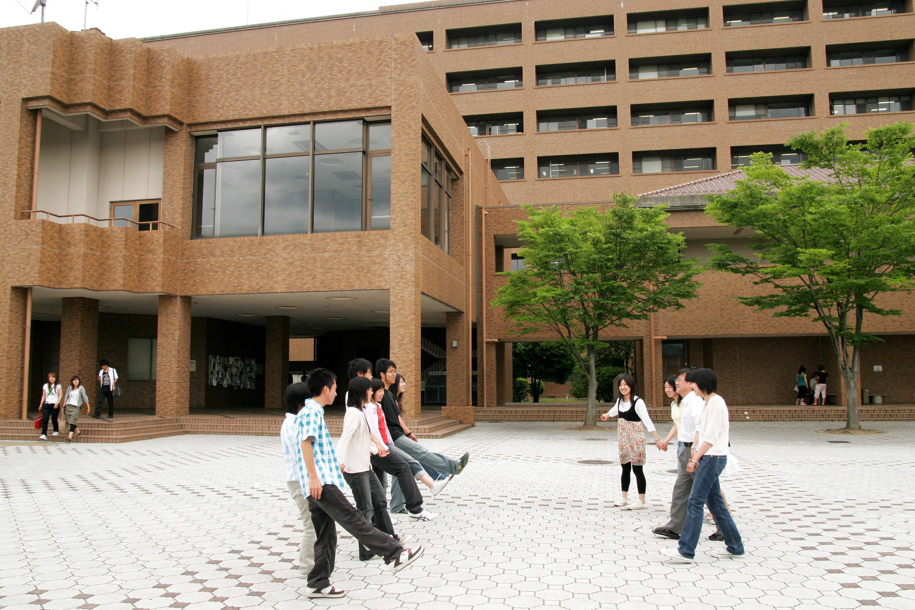 Faculty of Education